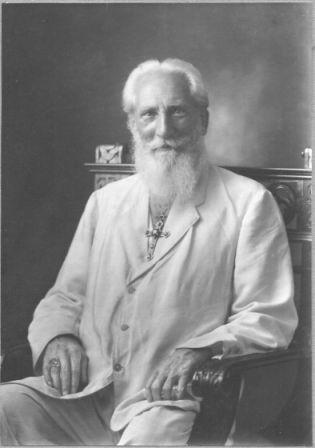 Charles Webster Leadbeater (1847-1934) in Adyar (Chennai), etwa 1931